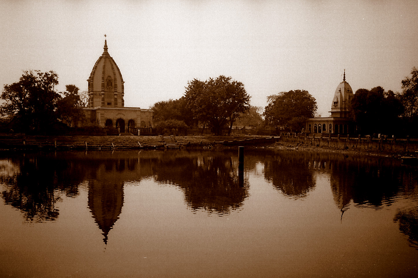 Scene of Temple complex in Darbhanga.